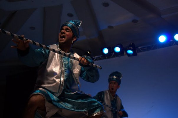 SLU Bhangra Nachte Raho 09